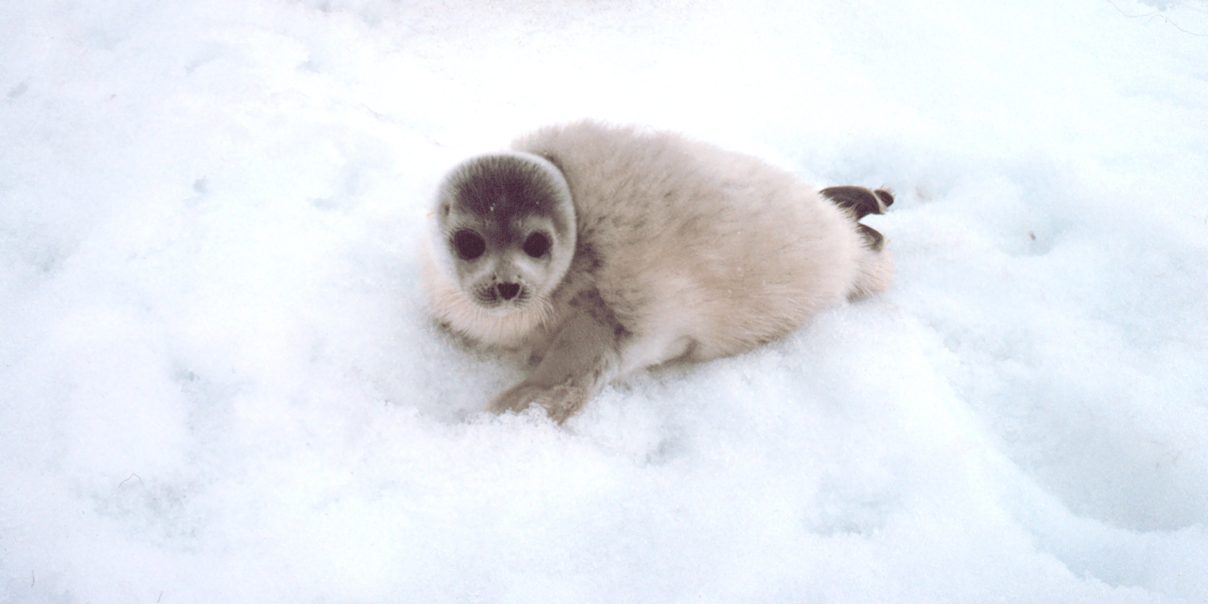 A Phoca largha seal pup taken at Alaska, Bering Sea.